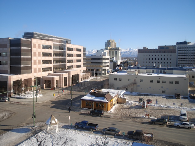 Buildings in Anchorage on a sunny winter day